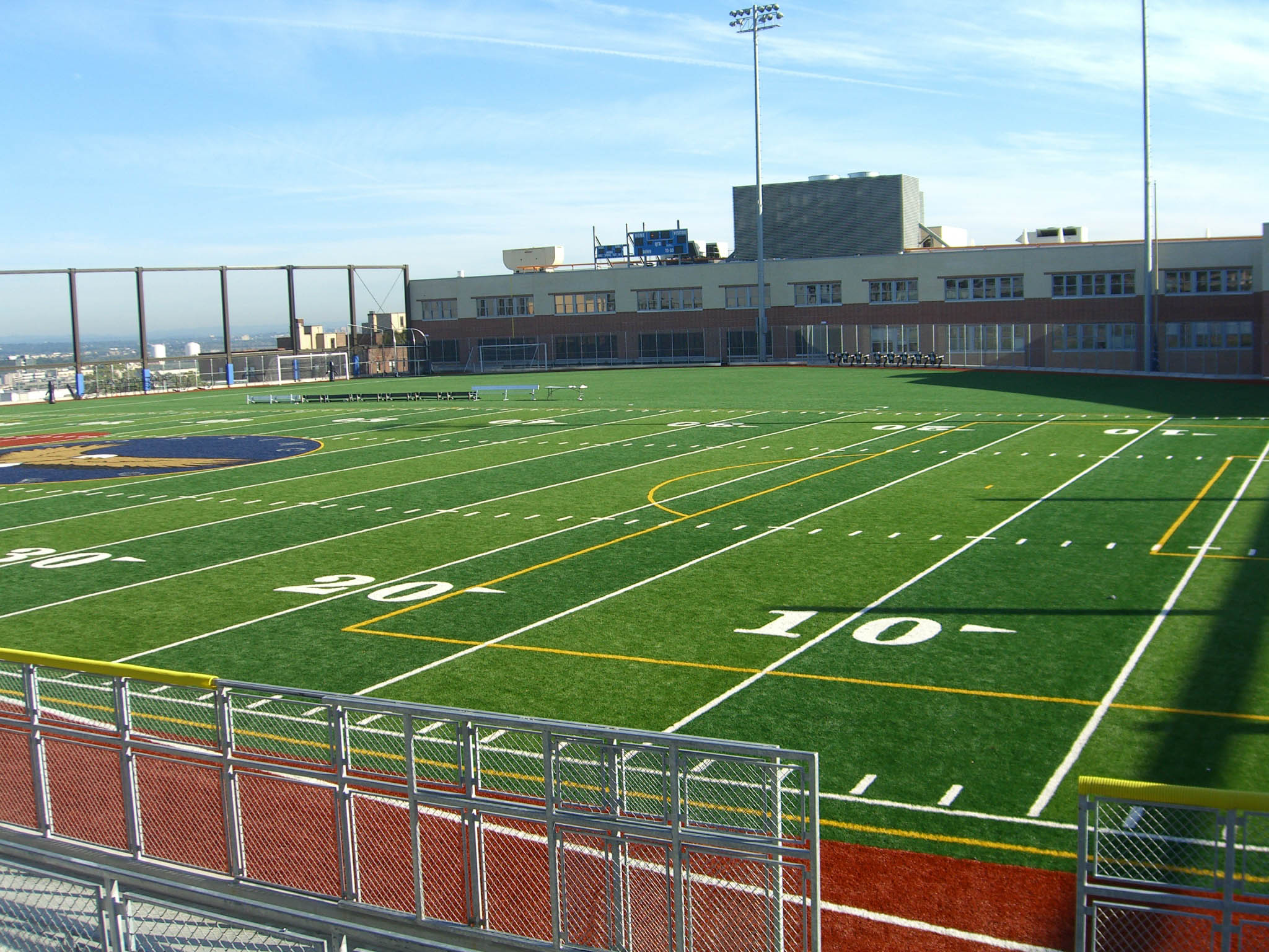 The third floor rooftop athletic field of Union City High School in Union City, New Jersey. Many thanks to Mayor Brian P. Stack, Superintendent of Schools Stanley Sanger, and Director of Facilities Frank Acinapura for arranging my private tours of the school, and to Head of Security Joey Orefice for conducting them personally. This photo was created by Luigi Novi. It is not in the public domain, and use of this file outside of the licensing terms is a copyright violation.